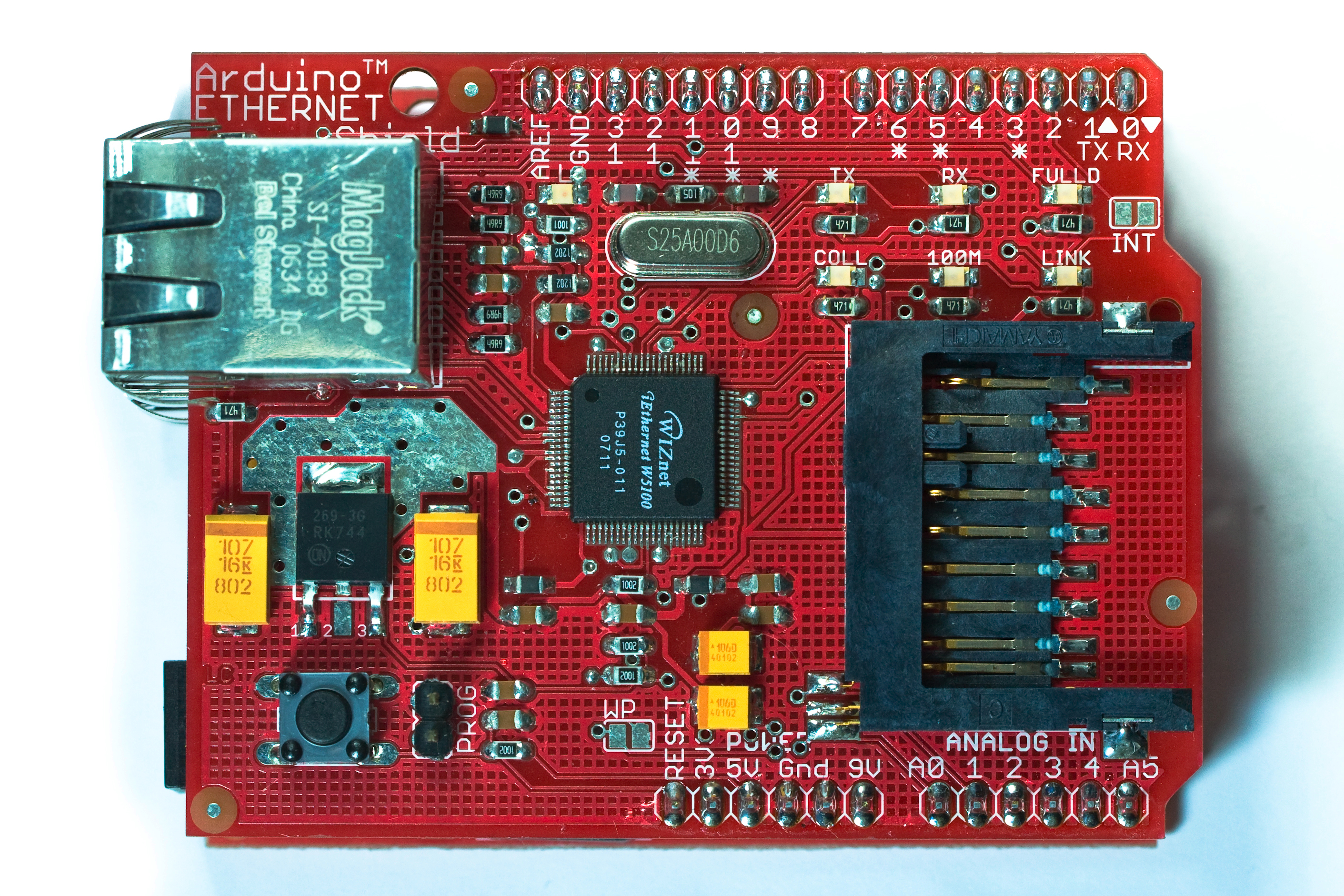 The same Wiznet chipset as the forthcoming Arduino Ethernet , but in the form of a shield that attaches to an existing Arduino. It took me about five minutes to get a simple HTTP request going using the ethernet software library. The SD memory slot is reserved for future use. There's no hardware FAT32 filesystem driver, so it's only usable for direct block access right now.